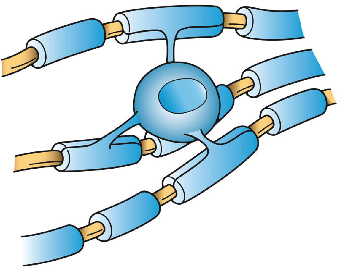 This image shows an oligodendrocyte.